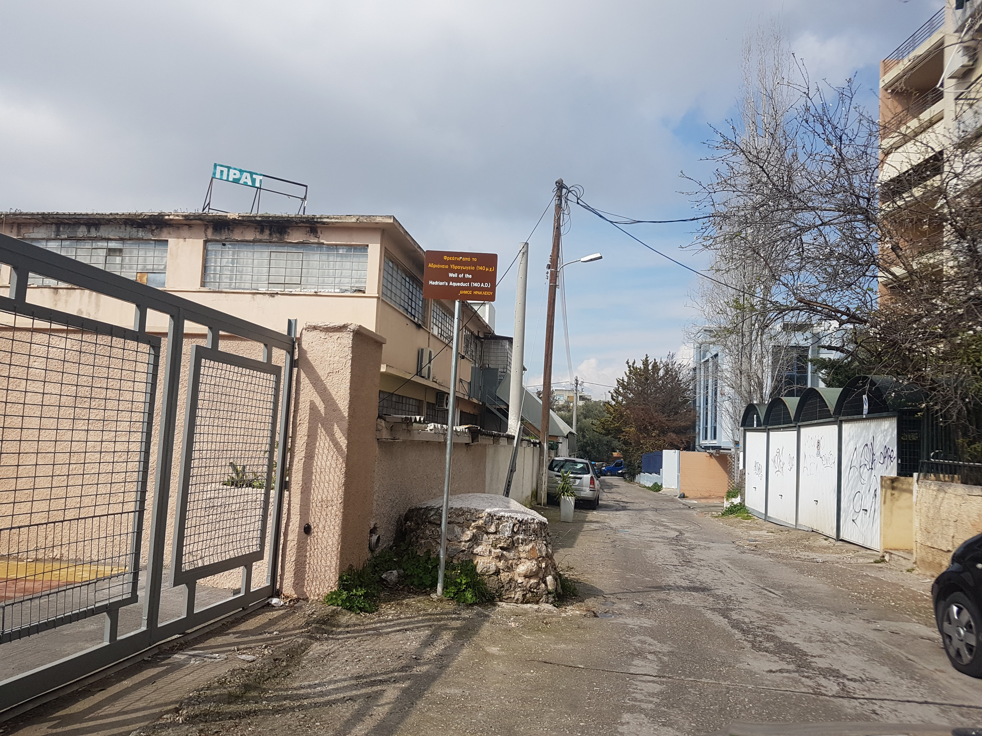 Well of the Hadrian's Aquaduct (140 AD) at Herakleion, Attika